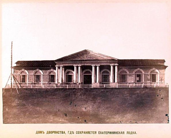 Museum of Ekaterina II Boot on Ekaterininskaya gorka in Veliky Novgorod